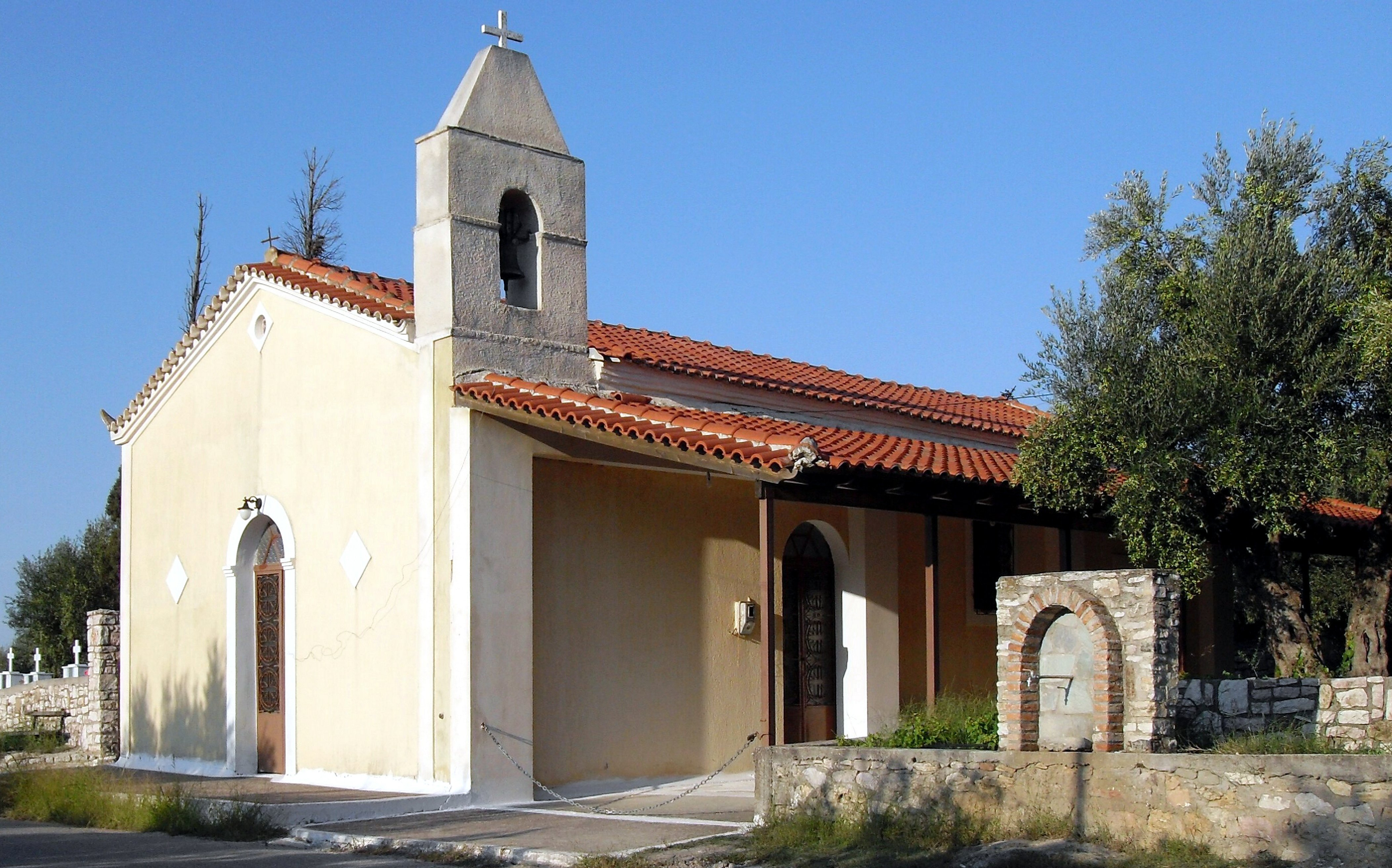 Church in the settlement Potamia, Charokopio district, municipality of Koroni, community of Pylos-Nestor